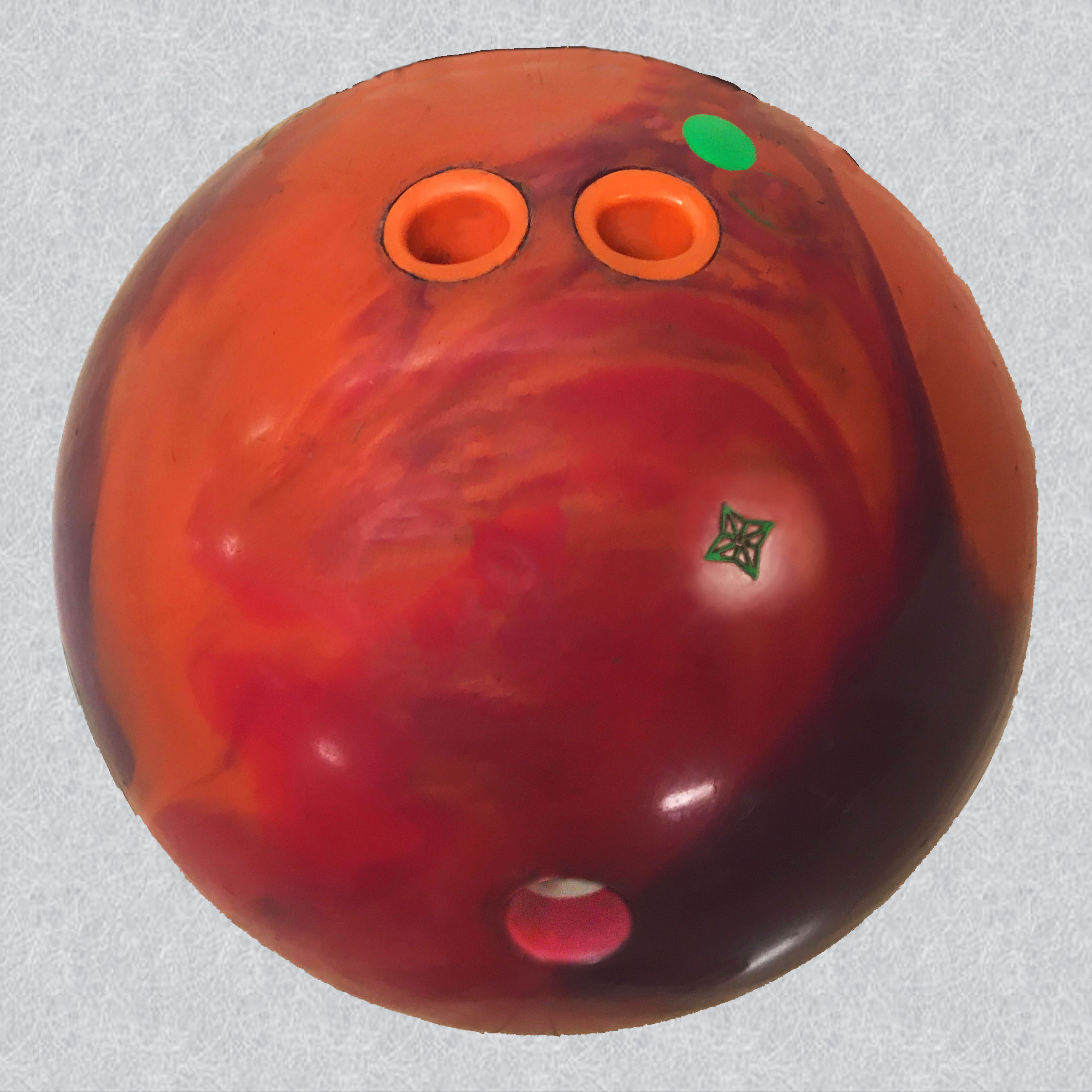 A custom-drilled reactive resin ball, having custom finger inserts in a ‘’fingertip grip’’ (fingers insert only to first knuckle). Ball has a ‘’pin up’’ layout (note green dot), with the mass bias indicator also visible. Reactive resin coverstock facilitates hooking.